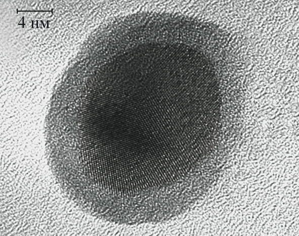 Micrograph of a particle PbS / S, the resulting photolytic decomposition of lead thiosulfate complex at low temperature in a matrix of a layered double hydroxide